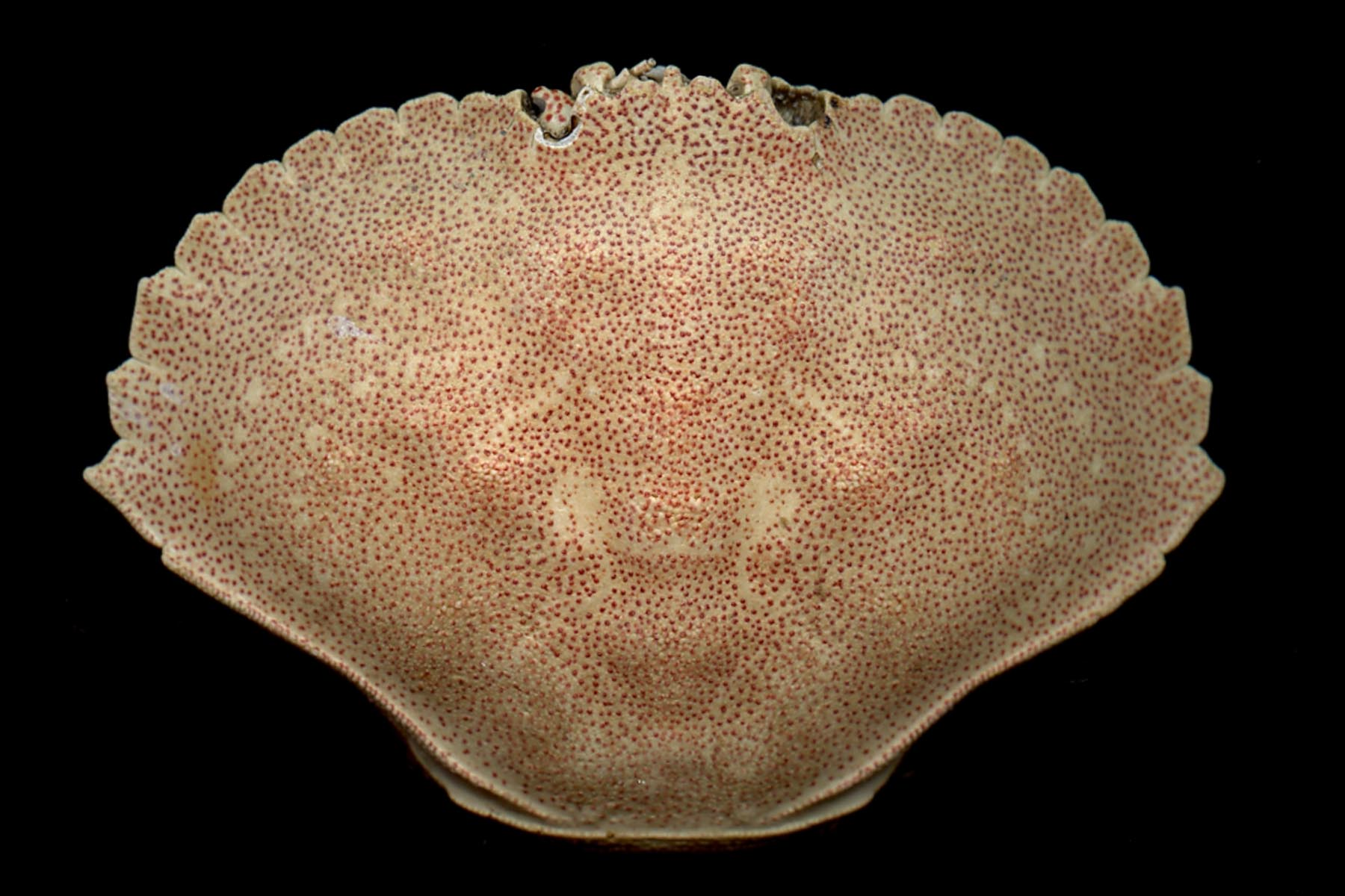 I created this image myself on April 3rd 2009, using a flatbed scanner. Invertzoo (talk) 21:36, 3 April 2009 (UTC) This carapace of the rock crab Cancer irroratus was found on the beach at Long Beach, Long Island, New York State, in October 2008. The carapace is almost 8 cms in width. Invertzoo (talk) 21:39, 3 April 2009 (UTC)